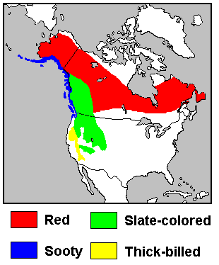 Image:Foxmap.jpg converted to .png format